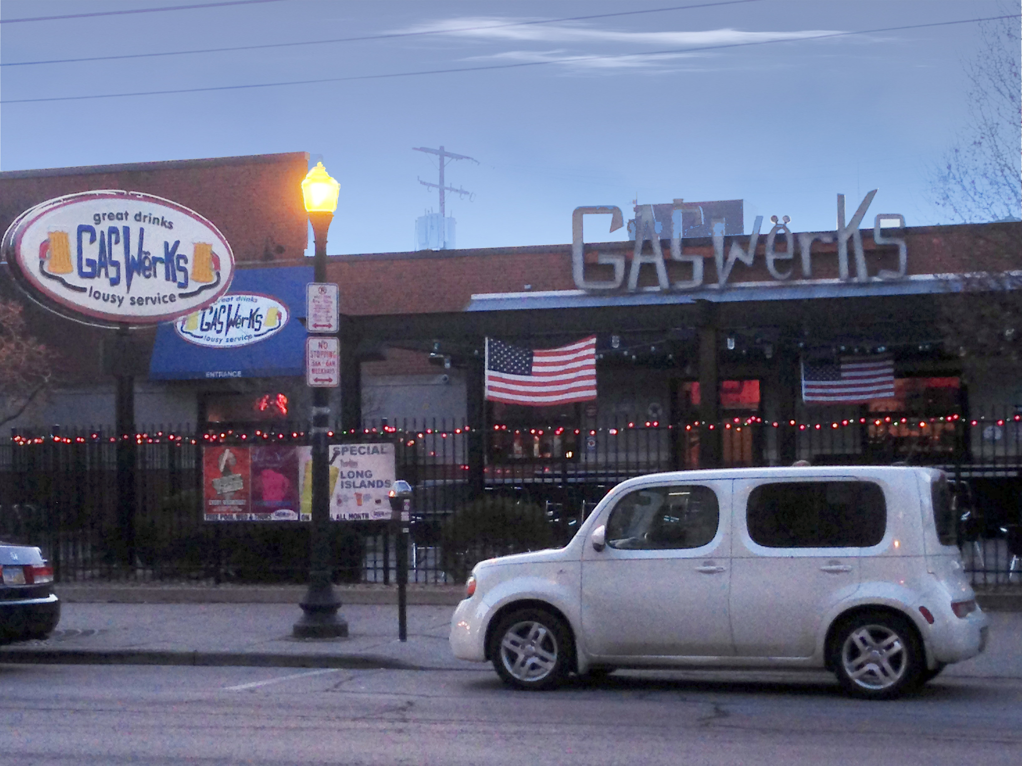 Gaswerks